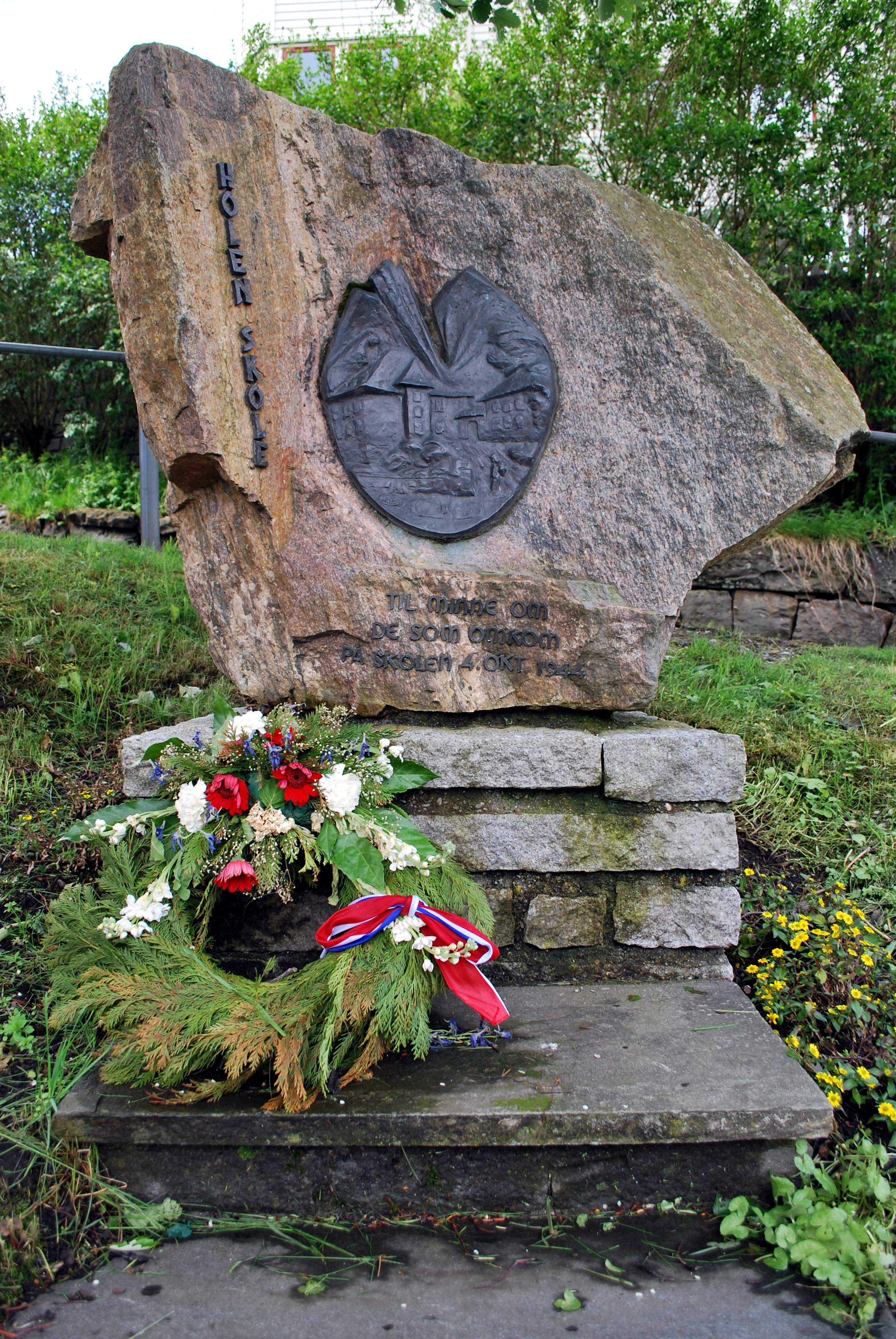 Memorial dedicated to the memory of those killed in the bombardment of Laksevåg 4. October 1944, including the 61 children at Holen skole.